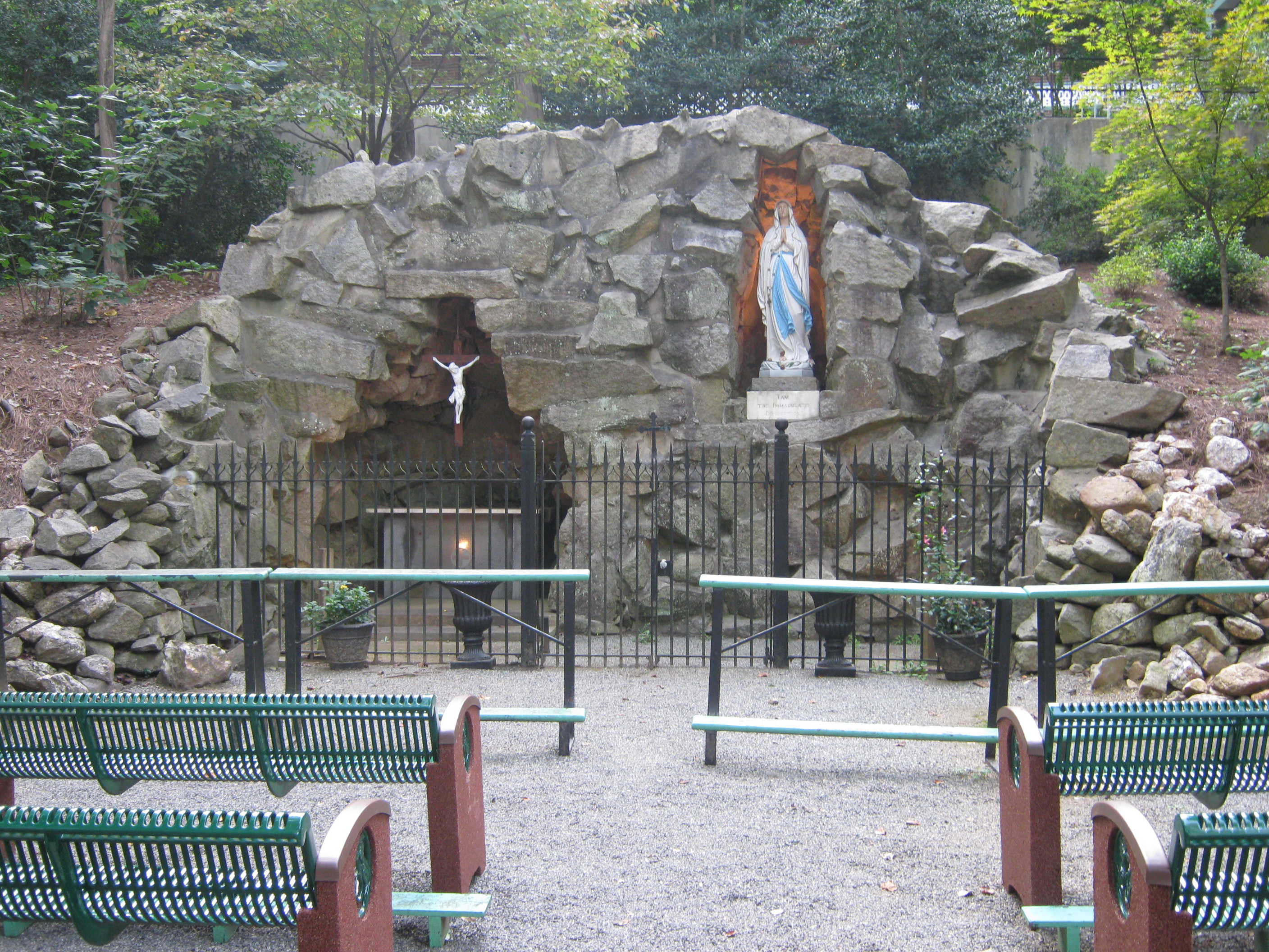 Photo I took of the grotto at Belmont Abbey College in Belmont, North Carolina